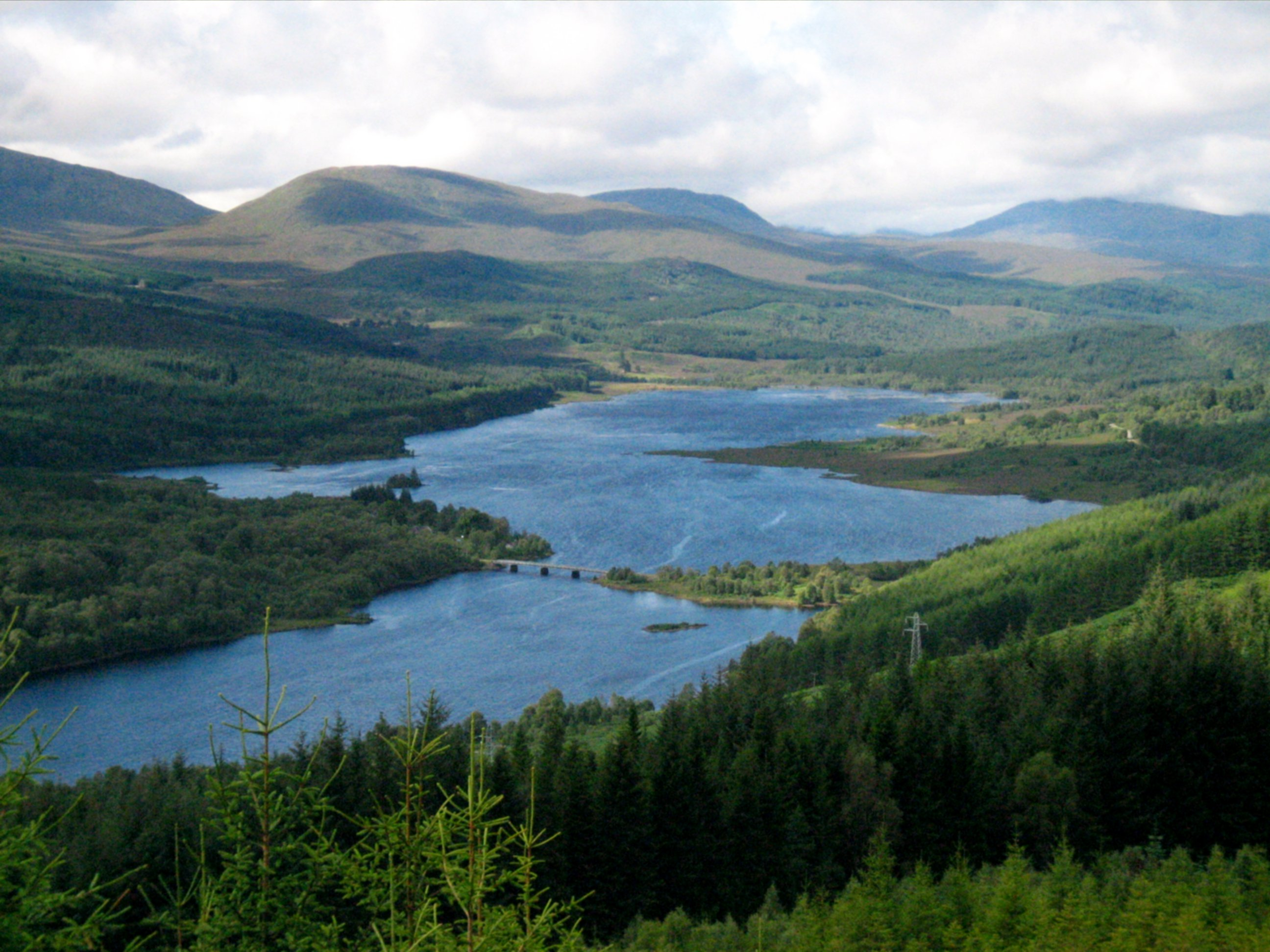 Loch Garry in Scotland, view from A 87